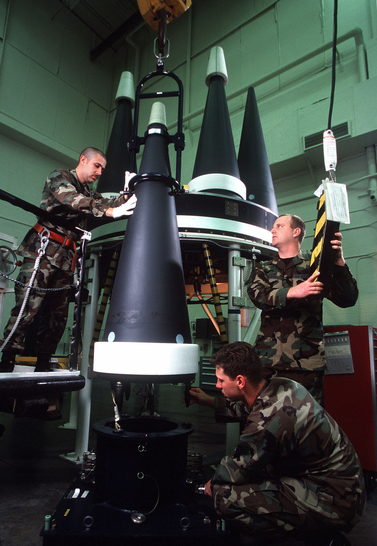 U.S. Air Force maintenance personnel training to remove and install the Avco MK-21 re-entry vehicles from the bus of a Peacekeeper missile.